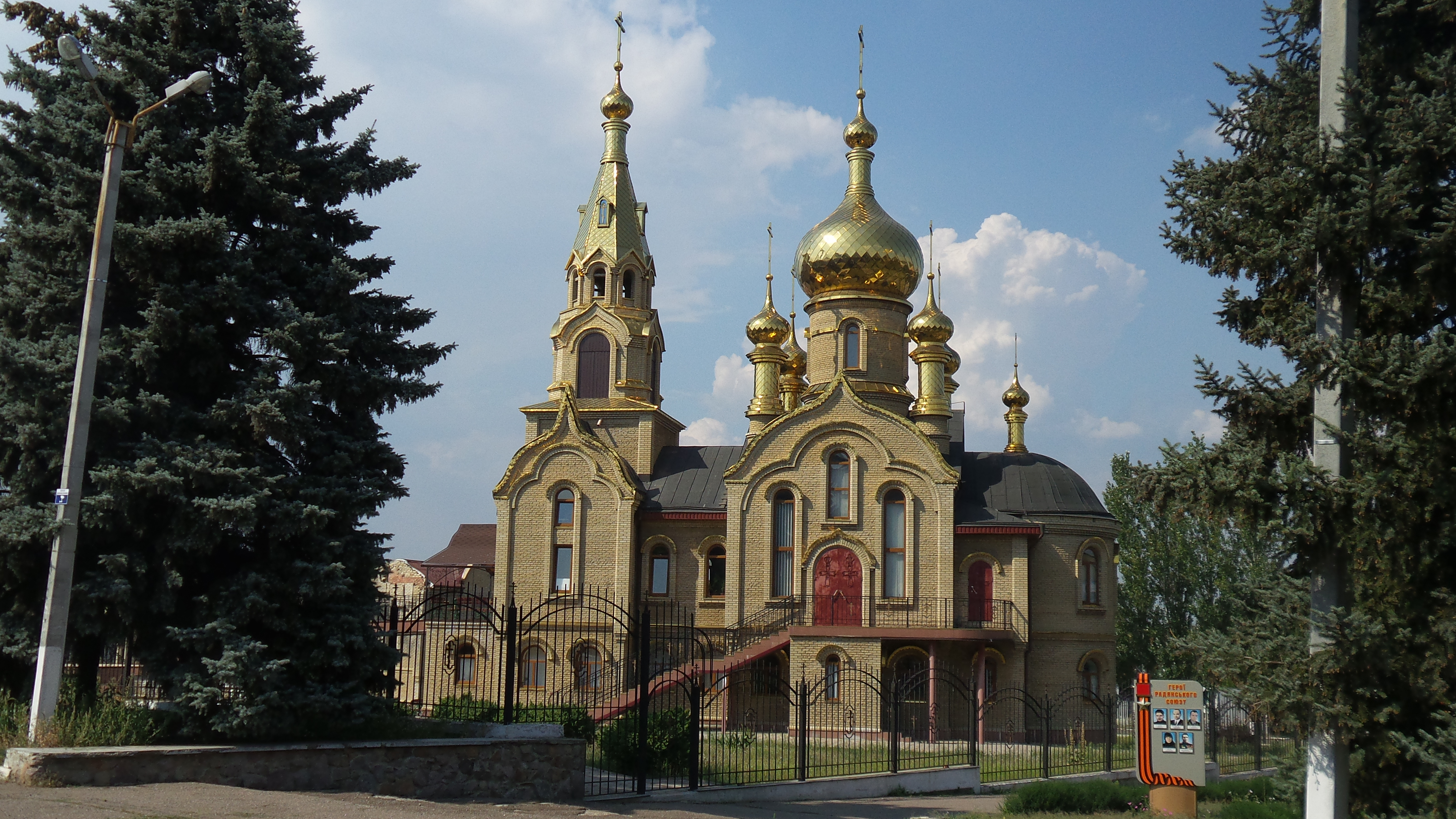 Maryinka, Donetsk region.